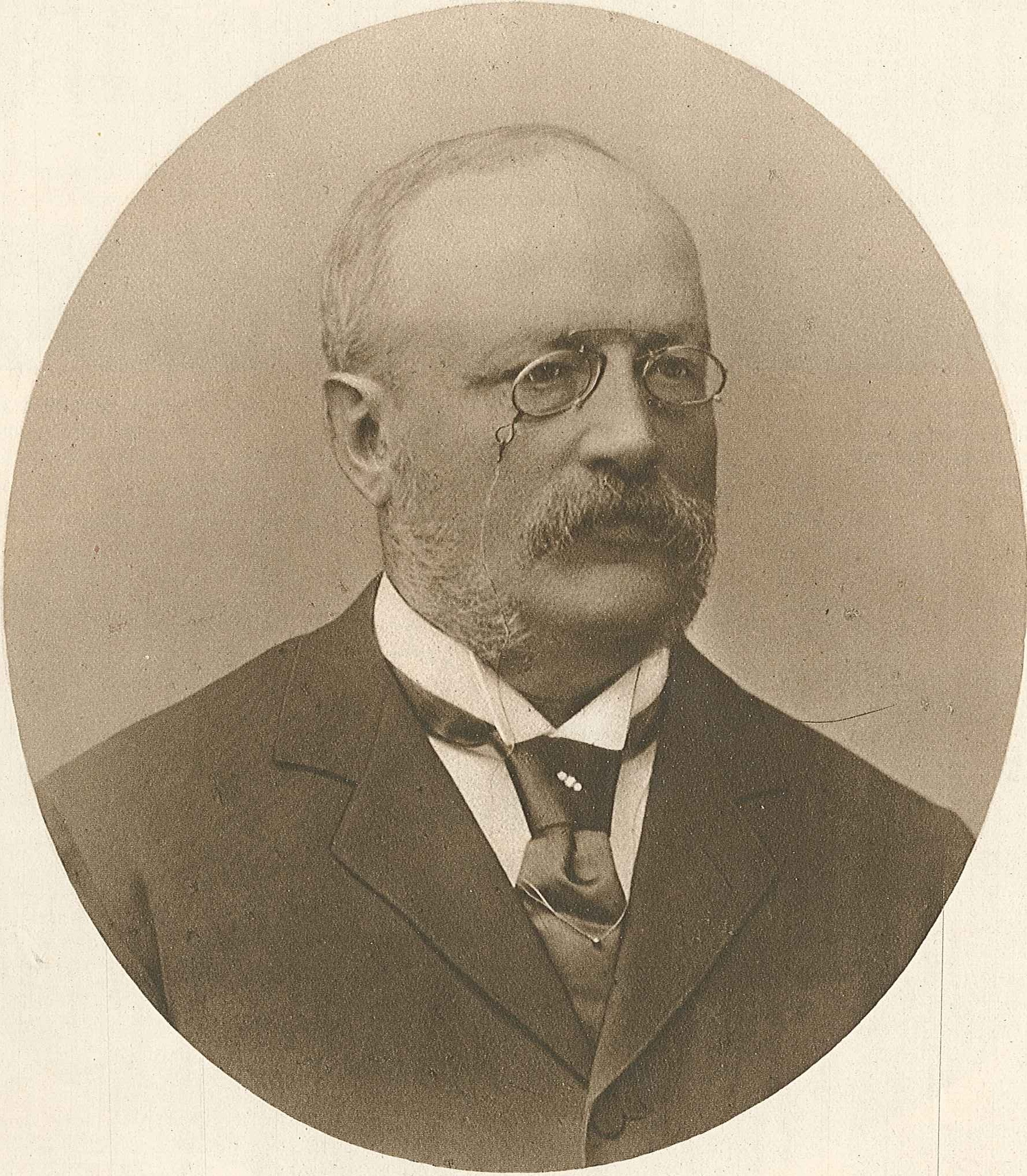 Carl Herslow (1836-1933), Swedish journalist, newspaper editor and politician; founder of Sydsvenska Dagbladet; member of Parliament (riksdagen) 1877-86 and 1888-93 and speaker of its second chamber in 1892 and 1893.